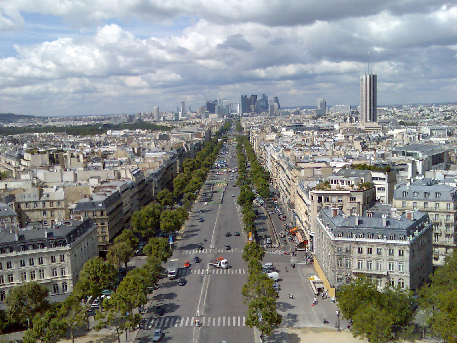 View from the summit of the Arc de Triomphe